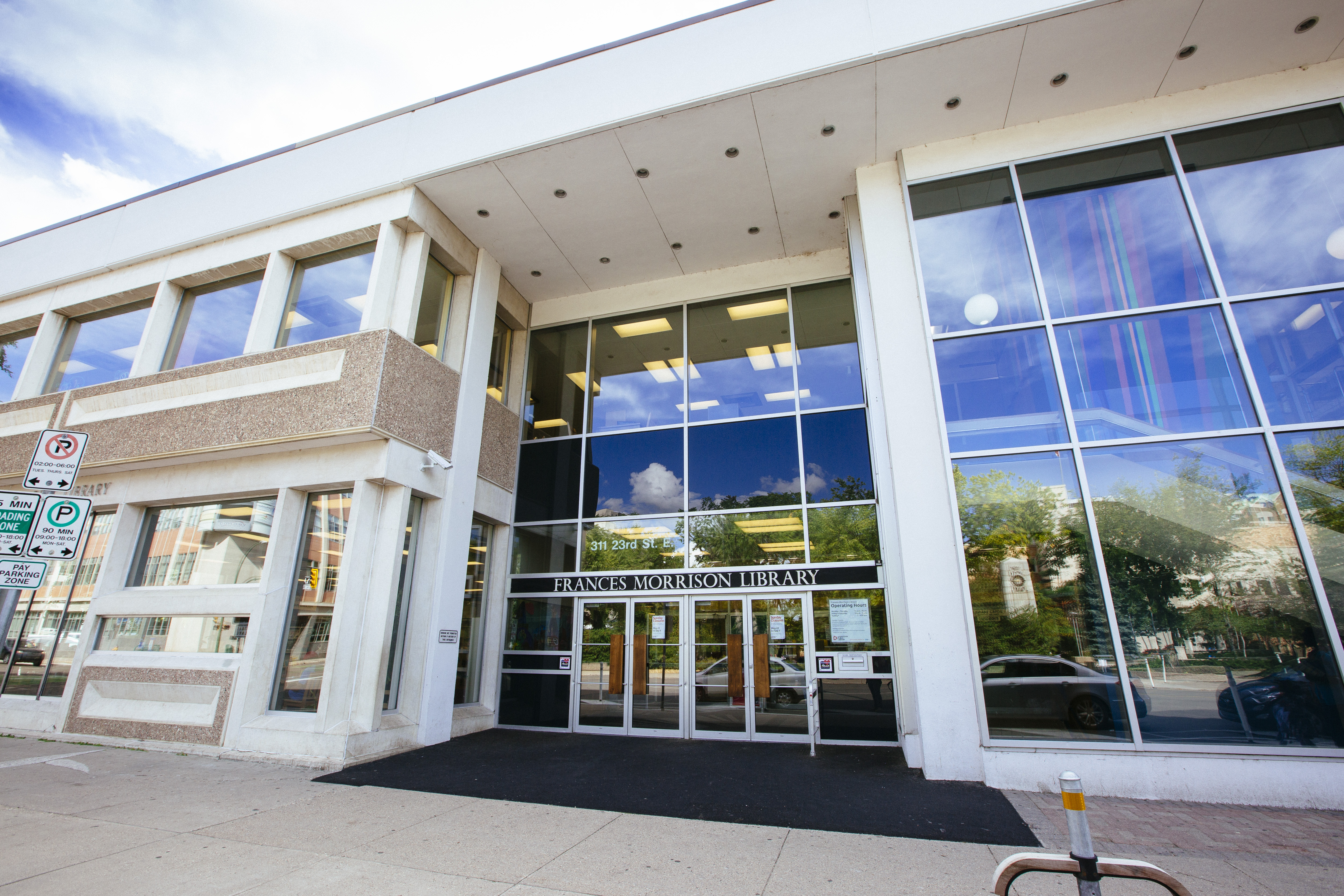 Exterior of Frances Morrison Central Library